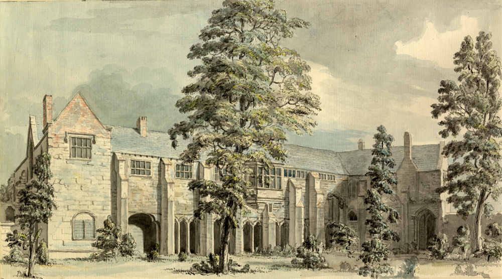 Front view of Whitefriars, Coventry